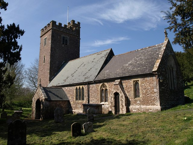 Church of St Michael and All Angels, Cadbury